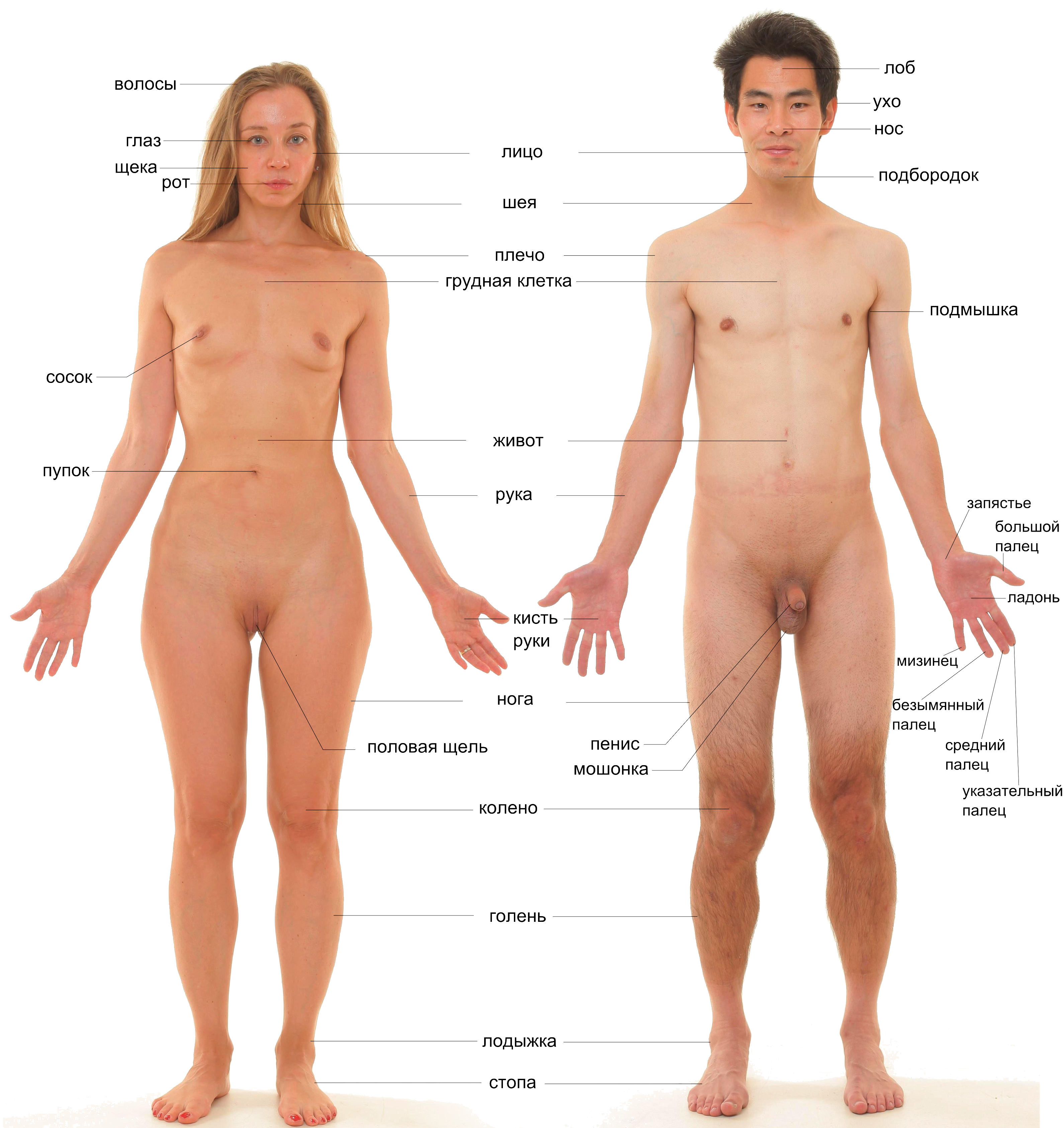 Naked female and male human body with labels.